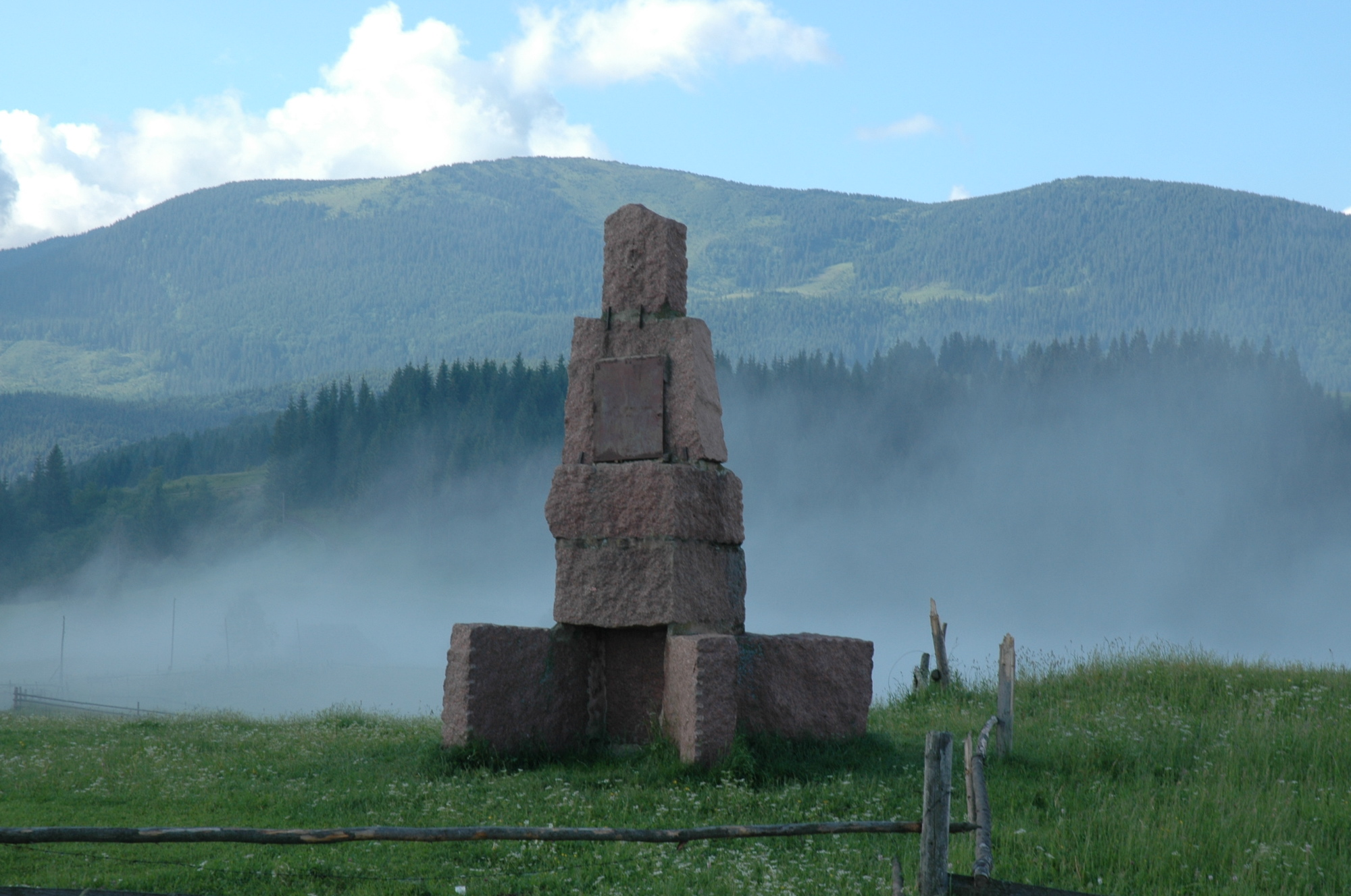 Soviet World War II memorial near Yasinia (Zaparpattya Oblast, Ukraine)